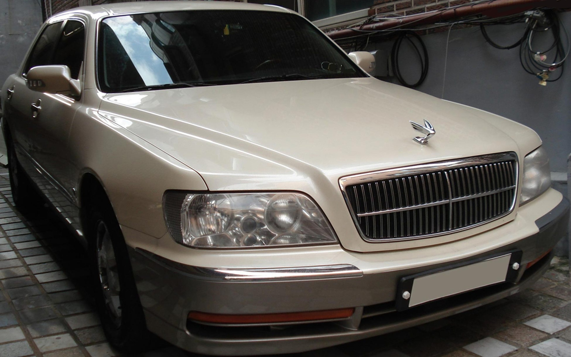 Hyundai Equus